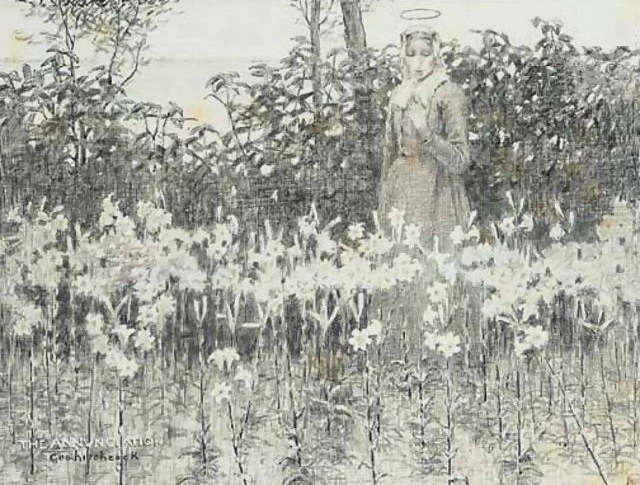 Annunciation, sketch